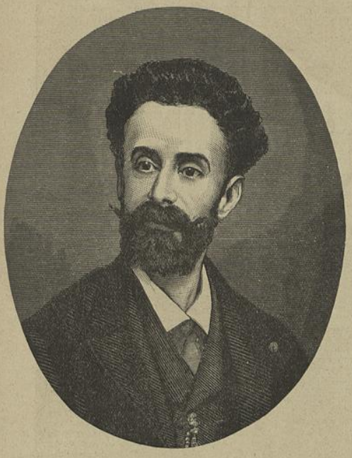 Composer Augusto Machado (1845-1924) in O Occidente (1900)